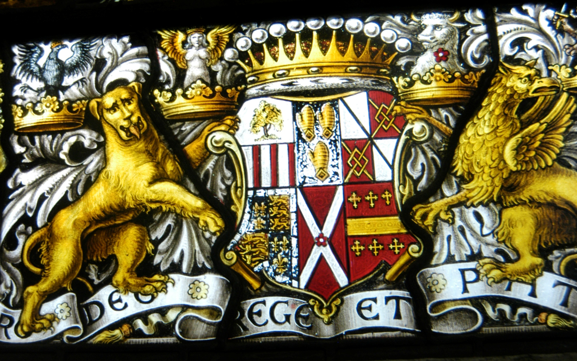 Photograph (by me, R. de Salis, Rodolph (talk) 23:21, 21 July 2015 (UTC)) of a full heraldic achievement, lowest part of an 1889 window by A. L. Moore, at S.S. Peter & Paul, Harlington, Middlesex.